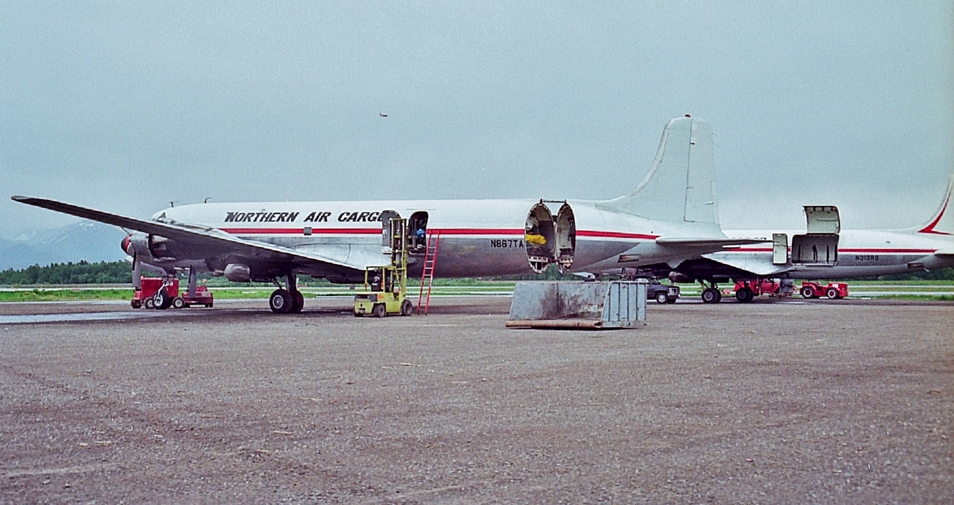 DC-6 N867TA Northern Air Cargo at ANC 14.6.1989. This aircraft was one of only two DC-6 converted to swing-tail configuration. It was destroyed on 25.9.2001 at Deadhorse-Alpine Airstrip, AK, after one wing broke off on touchdown. All 3 on board survived.